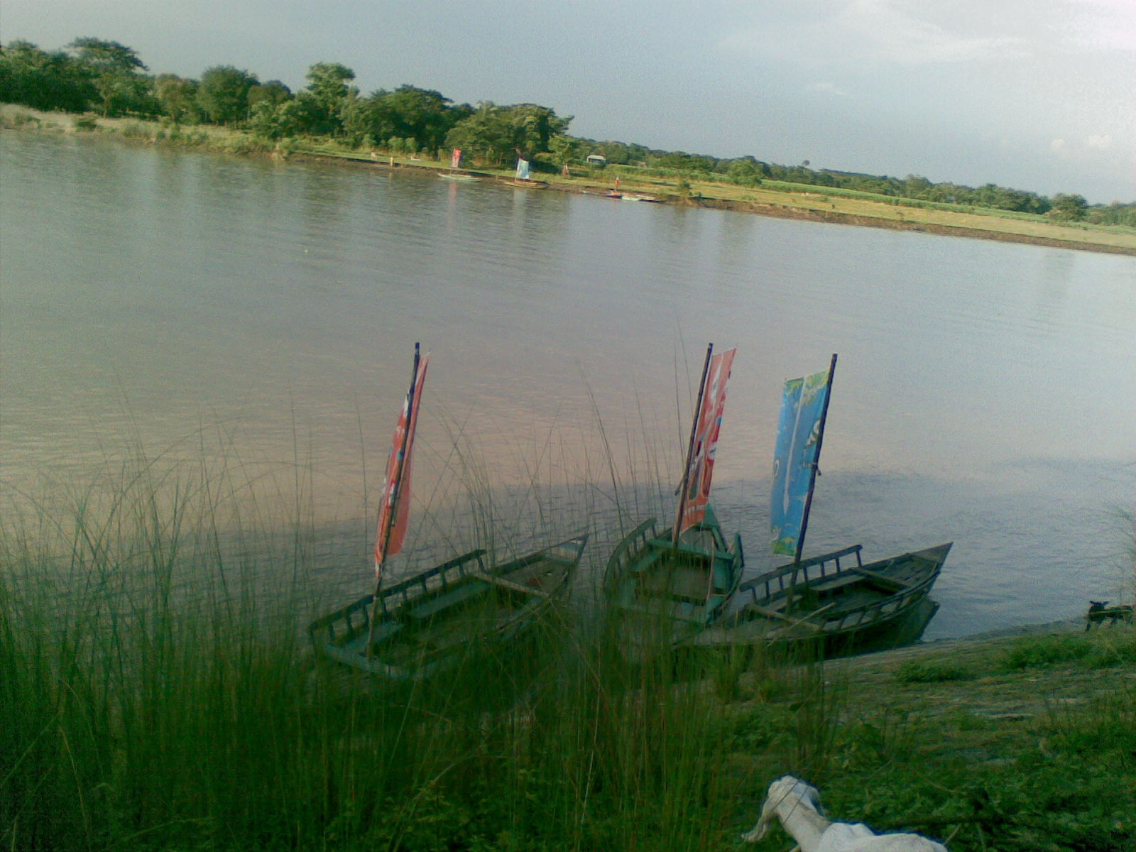 Brahmaputra -fuad